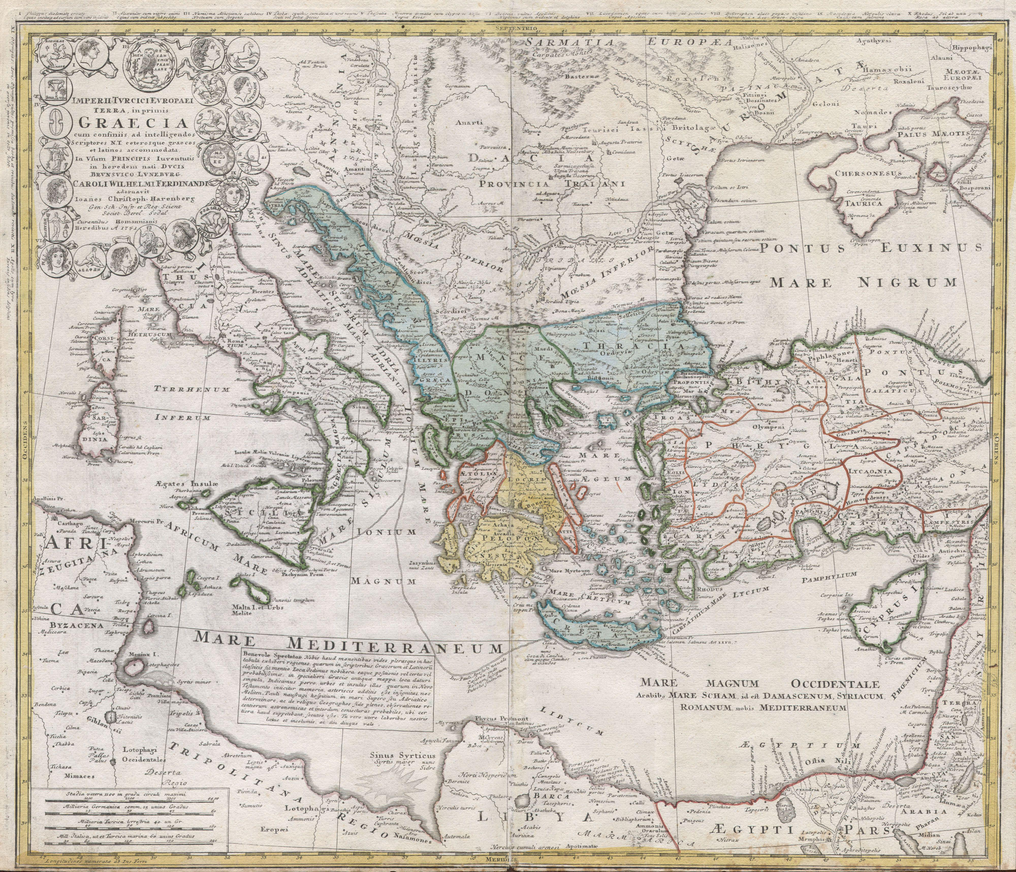 This is one of the Homann Heirs finest and most appealing maps of the ancient Greek World. Map centers on Greece but includes the entirety of the eastern Mediterranean and North Africa. Also includes the Black Sea as far as the Crimea and the sea of Azov. Extends north as far as Sarmatia and Pannonia. Includes Italy, Sicily, Corsica and Sardinia. Upper left quadrant features a decorative title cartouche adorned with the rectos and versos of 12 ancient Greek coins with explanatory numbered references outside the top border of the map. Show the important Greek provinces and colonies through the Mediterranean, especially in modern day turkey and in the Italian peninsula. Includes nautical military and trade routes. This map was drawn by Joanes Christoph Harenberg for inclusion the 1752 Homann Heirs Maior Atlas Scholasticus ex Triginta Sex Generalibus et Specialibus…. Most early Homann atlases were “made to order” or compiled of individual maps at the request of the buyer. However, this rare atlas, composed of 37 maps and charts, was issued as a “suggested collection” of essential Homann Heirs maps. A fine copy of an important map.